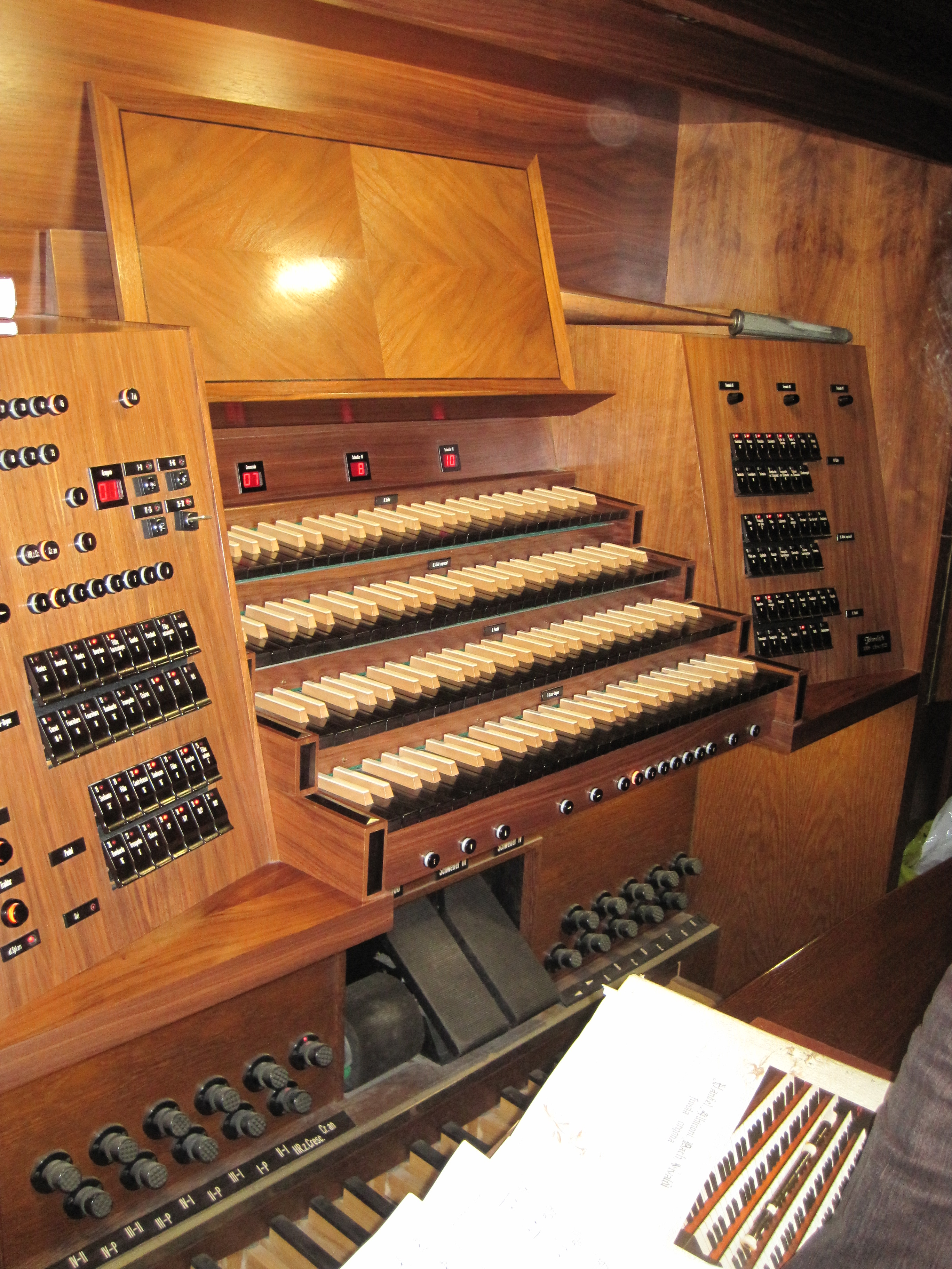 Dohány street synagogue